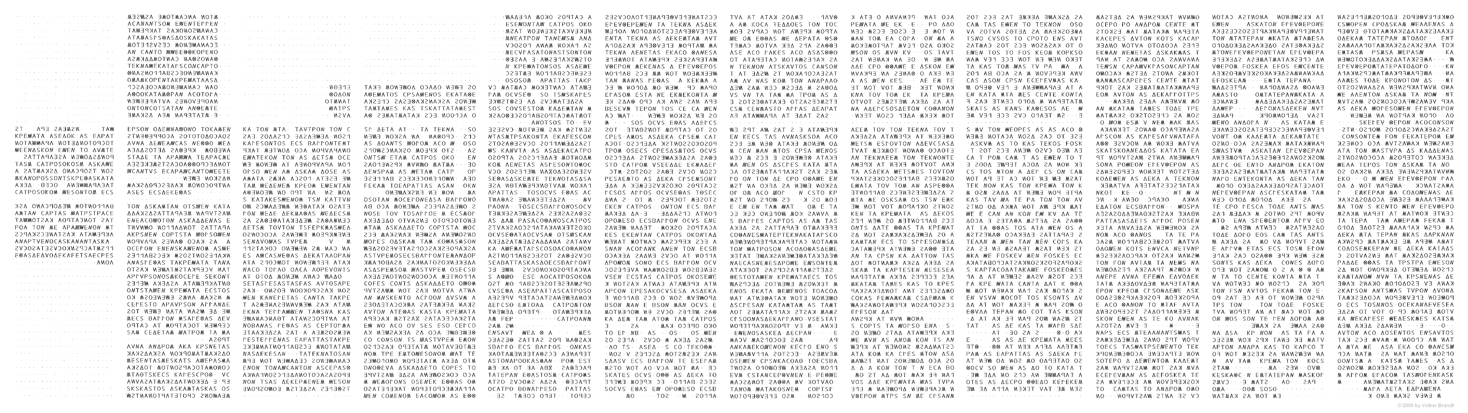 Complete transcription of the 12 columns of the Gortyn Code on Crete in Greece under retention of the boustrophedon based on color slides produced by myself in the end of April, 1992.